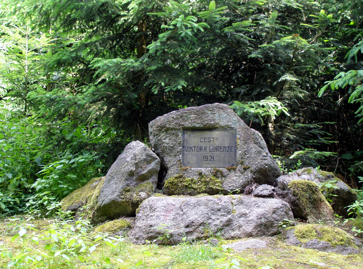 Třebíč-Jejkov. City public park Lorenz Valley. Memorial plaque dated 1921